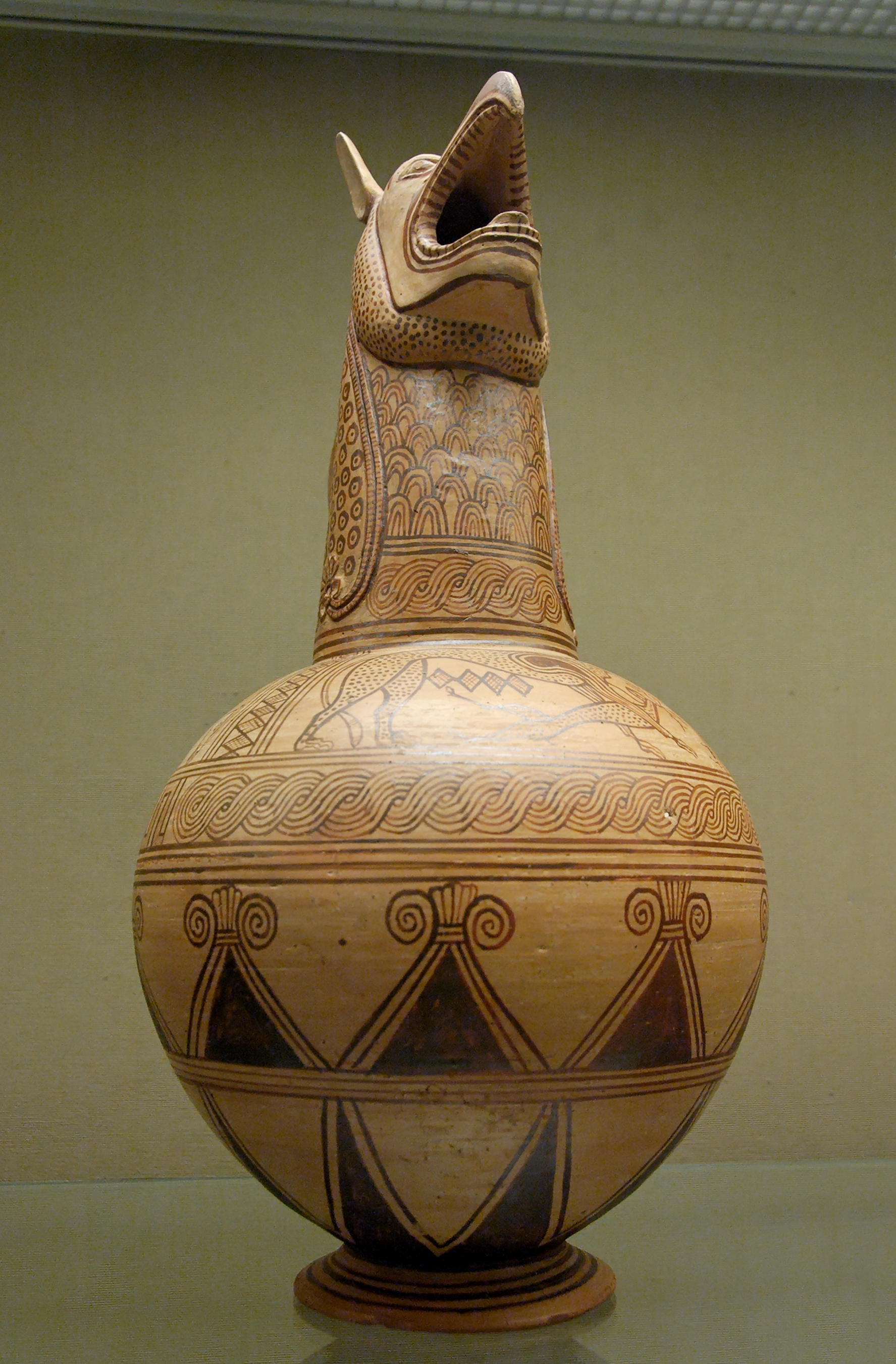 Jug with spout in form of a griffin's head. Shoulder: lion pulling down a stag, two horses. Terra cotta, Paros (?).